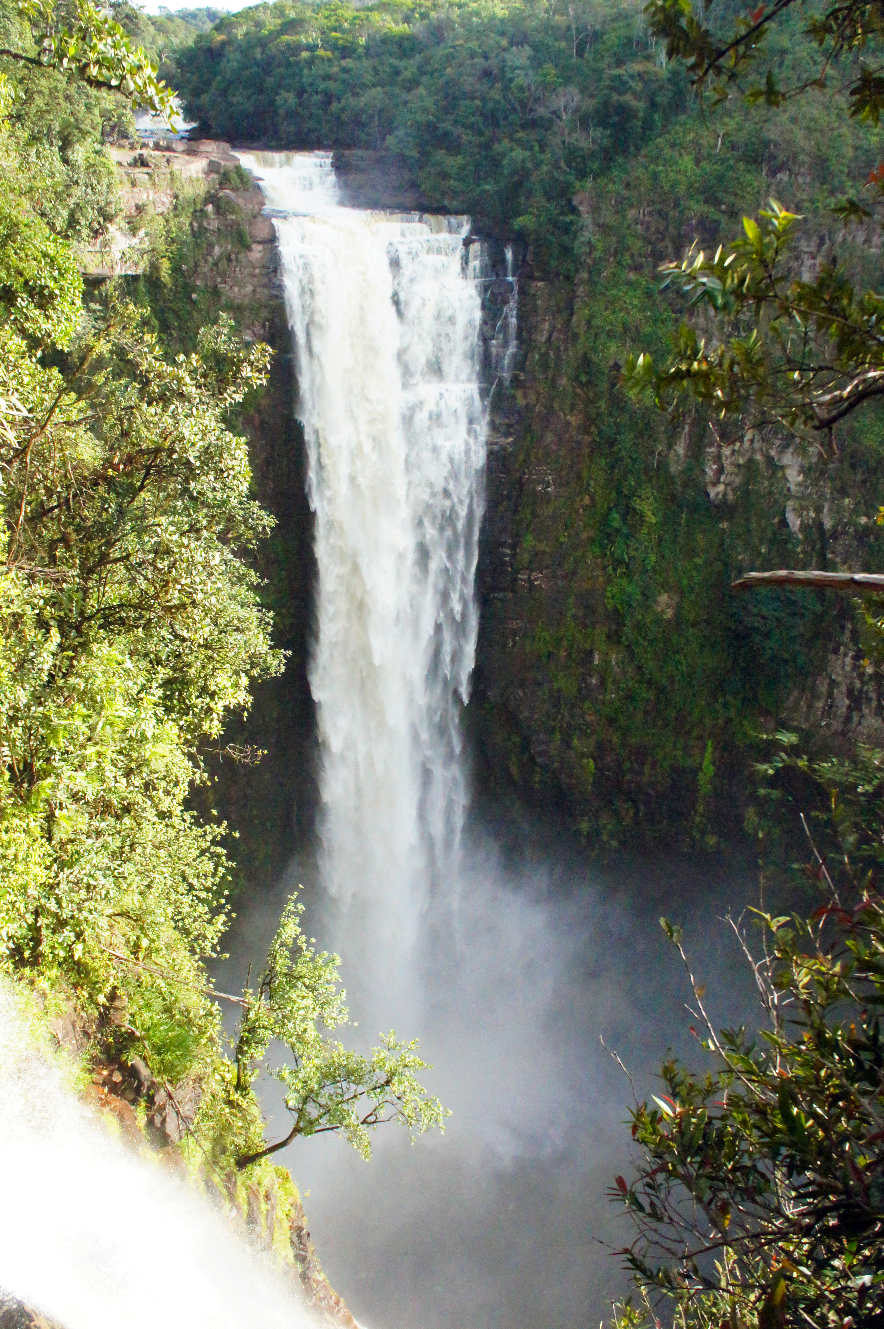 Photo of Kamarang Great falls